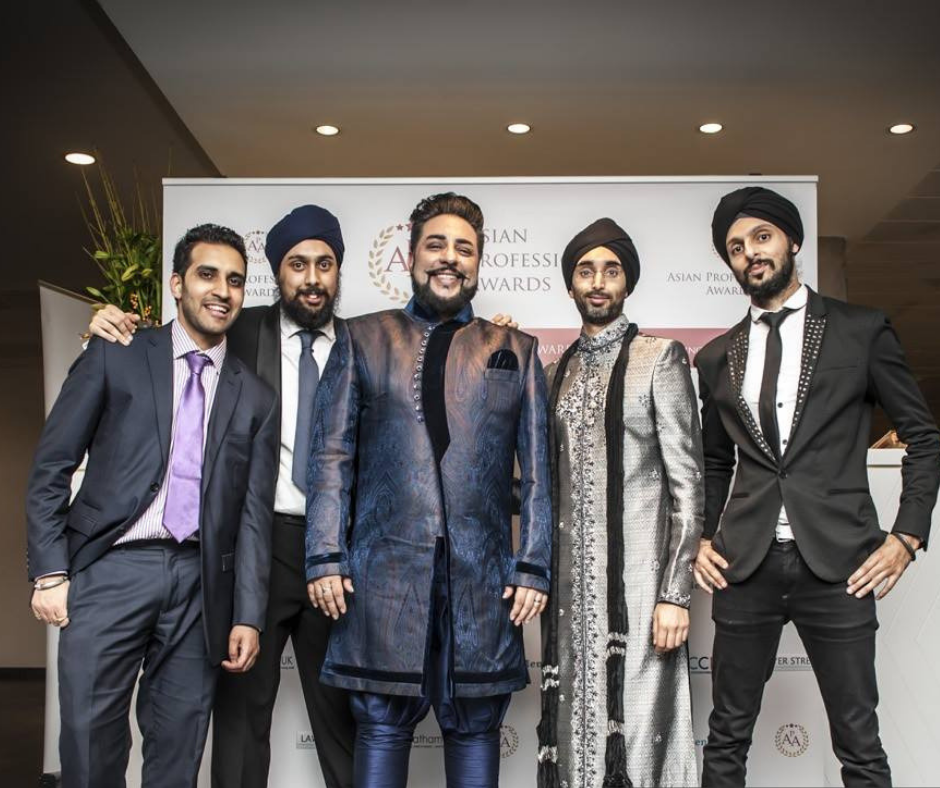 Bobby Friction presenting the Asian Professional Awards 2014 at the Emirates Stadium. From left to right Harry Virdee, Onkardeep Singh MBE, Bobby Friction, Jasvir Singh OBE, Param Singh